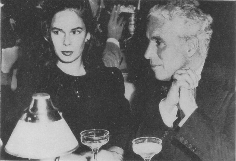 Oona O'Neill Chaplin and Charlie Chaplin, Hollywood, 1944.